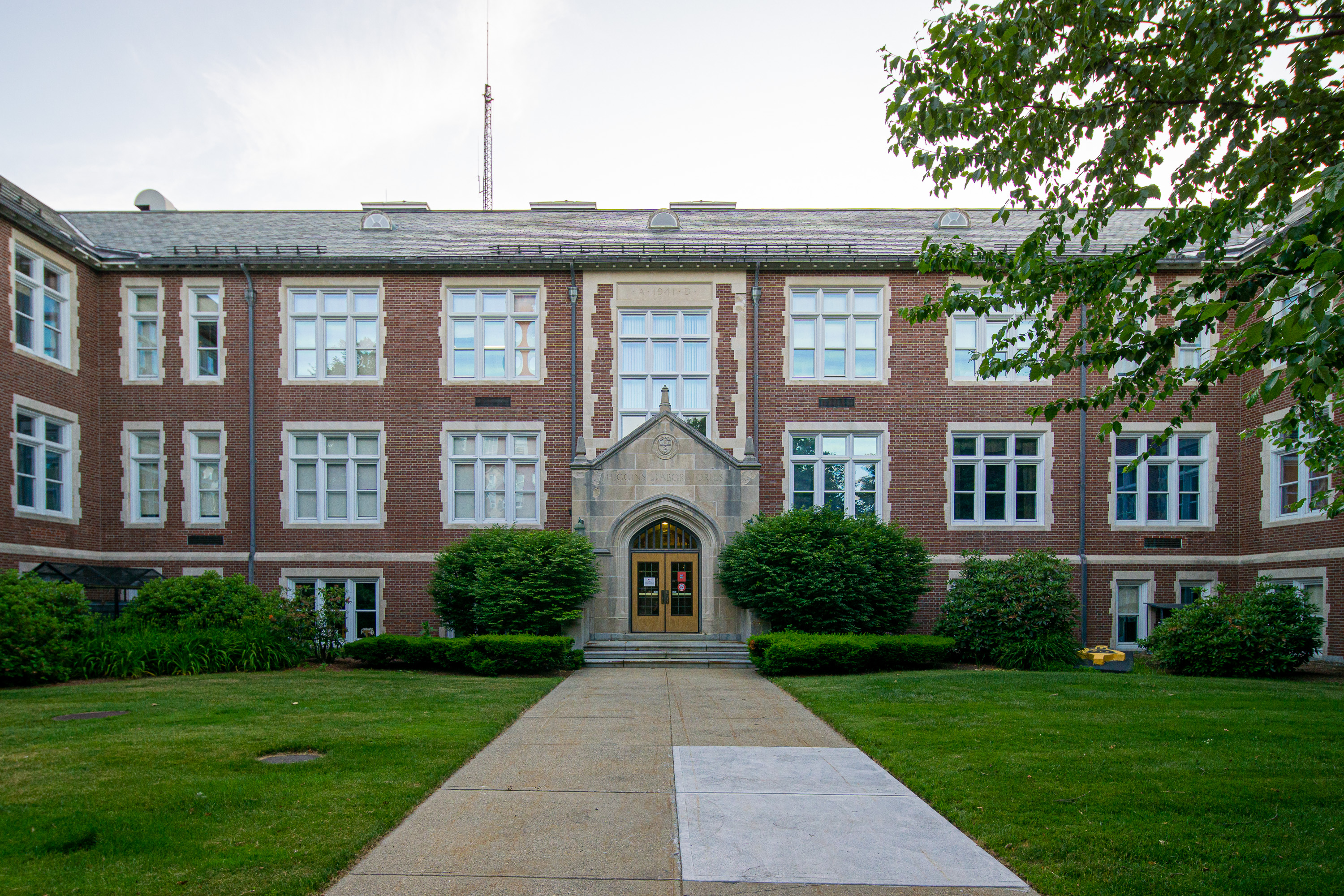 Higgins Laboratories, Worcester Polytechnic Institute. Built 1942 for Department of Mechanical Engineering. Renovated 1994 and houses Mechanical Engineering and Aerospace Engineering.